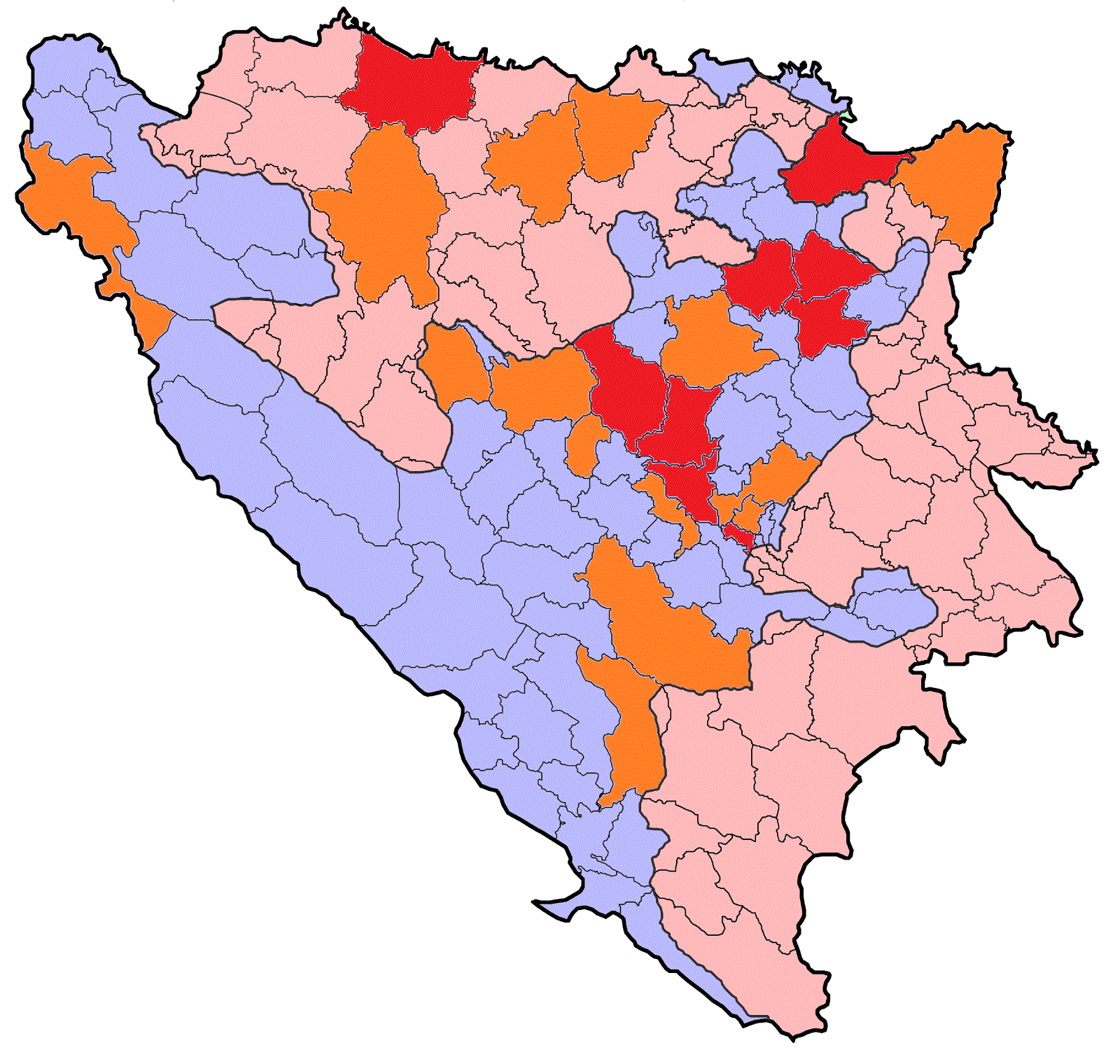 Municipalities with the largest Roma communities in Bosnia and Herzegovina: in red above 1,000 persons reported, in orange below 1,000 The largest number of Roma in Bosnia and Herzegovina live in the Tuzla Canton (15,000–17,000), of which a sizeable proportion in the municipality of Tuzla (6,000–6,500), as well as in Živinice (3,500), Lukavac (2,540). The Sarajevo Canton hosts around 7,000 Roma families, mostly in the municipality of Novi Grad (FBiH) (1,200–1,500 families), then in Ilijaš (300) and Vogošća (300). The Zenica-Doboj Canton hosts between 7,700 and 8,200 Roma, of which 2,000–2,500 in the Zenica Municipality, 2,160 in Kakanj, 2,800 in Visoko, 700 in Zavidovici. 2,000–2,500 Roma live in the Central Bosnia Canton, mostly in Donji Vakuf (500–550), Vitez (550) and Travnik (450), Kiseljak (400), Jajce (240). In the Una-Sana Canton there are between 2,000–2,200 Roma, of which 700 in the Bihać Municipality. In the territory of Herzegovina-Neretva Canton there are between 2,200–2,700 Roma, of which 450 in Konjic and 250 in Mostar. 2,000–2,500 Roma live in the Brčko District. In Republika Srpska live around 3,000–11,000 Roma, most of which in Gradiška (1,000), Bijeljina (541), Banja Luka (300), Prnjavor (200), Derventa (120). 2012 BiH Ombudsman report – Data collected from Roma associations. p. 23-24